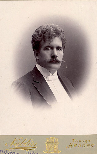 The image of Norwegian conductor Johan Halvorsen (1864-1935)